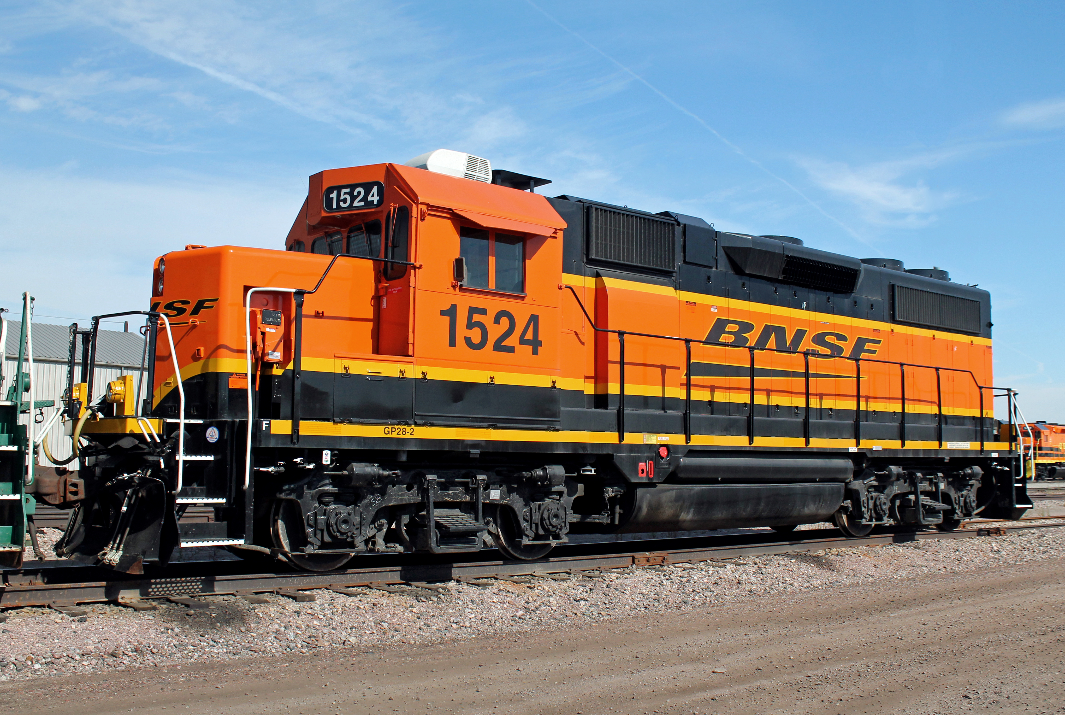 Representative of BNSF's typical second-generation EMD yard switching power, BNSF GP28-2 1524 is at Hobson Yard in Lincoln, Nebraska in 2014.